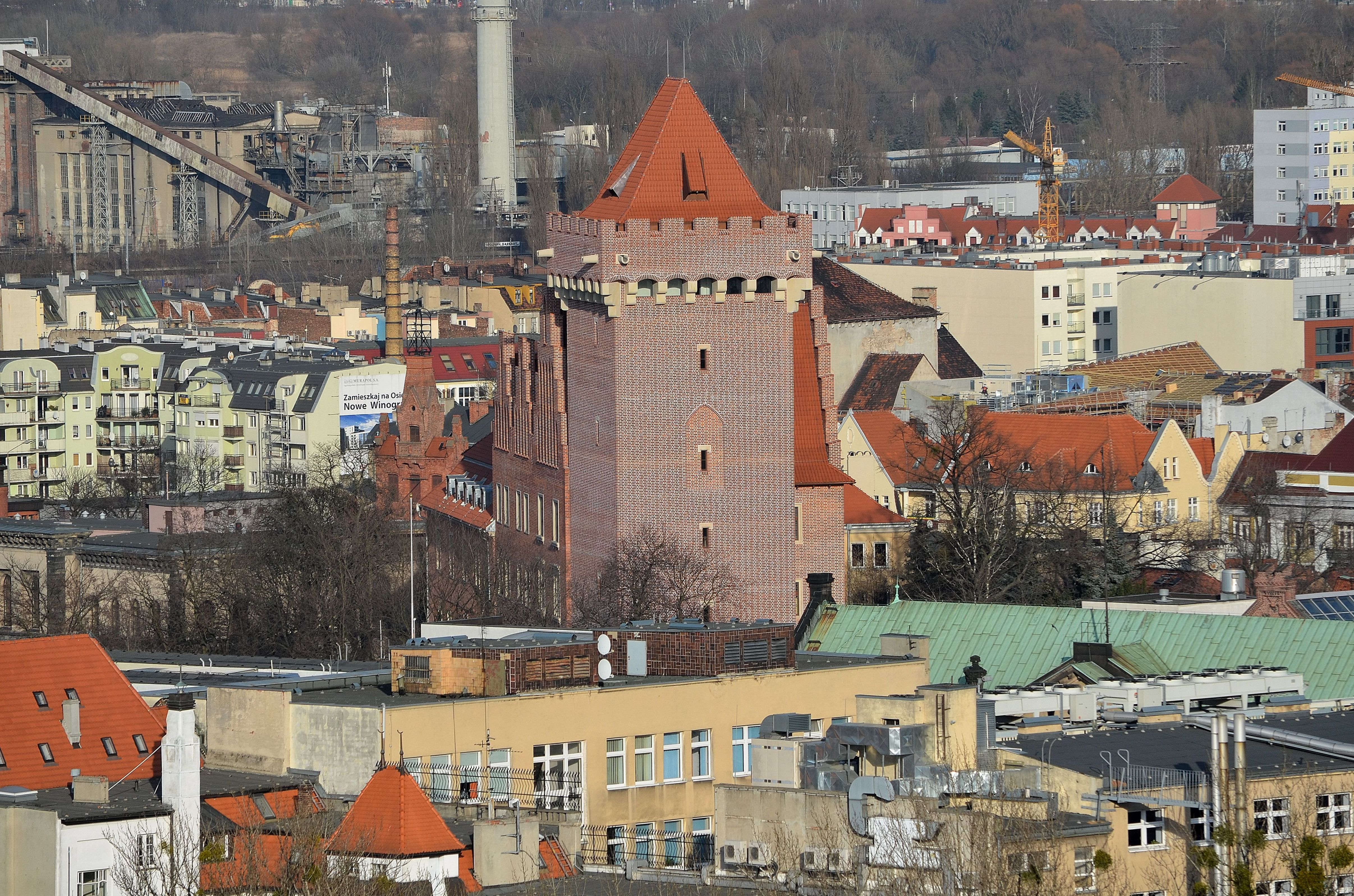 Royal Castle in Poznań viewed from 15th floor of Collegium Altum building